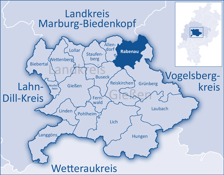 The map shows a district in the area of Gießen (district)